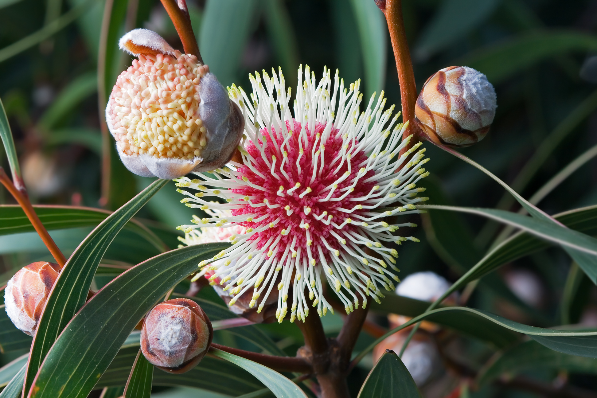 Pincushion Hakea (Hakea laurina), Austins Ferry, Tasmania, Australia Camera data Camera Canon EOS 400D Lens Tamron EF 180mm f3.5 1:1 Macro Flash Umbrella Focal length 180 mm Aperture f/11 Exposure time 0.6 s Sensivity ISO 100